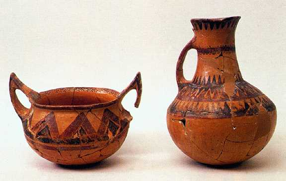 Vessels with matt-painted decoration from the 14th century BC, image from the Archaeological Museum, Aiani, West Macedonia, Greece